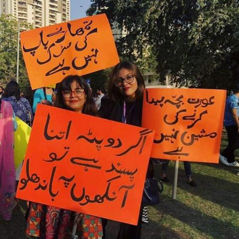 Women displaying placards during Aurat March 2019